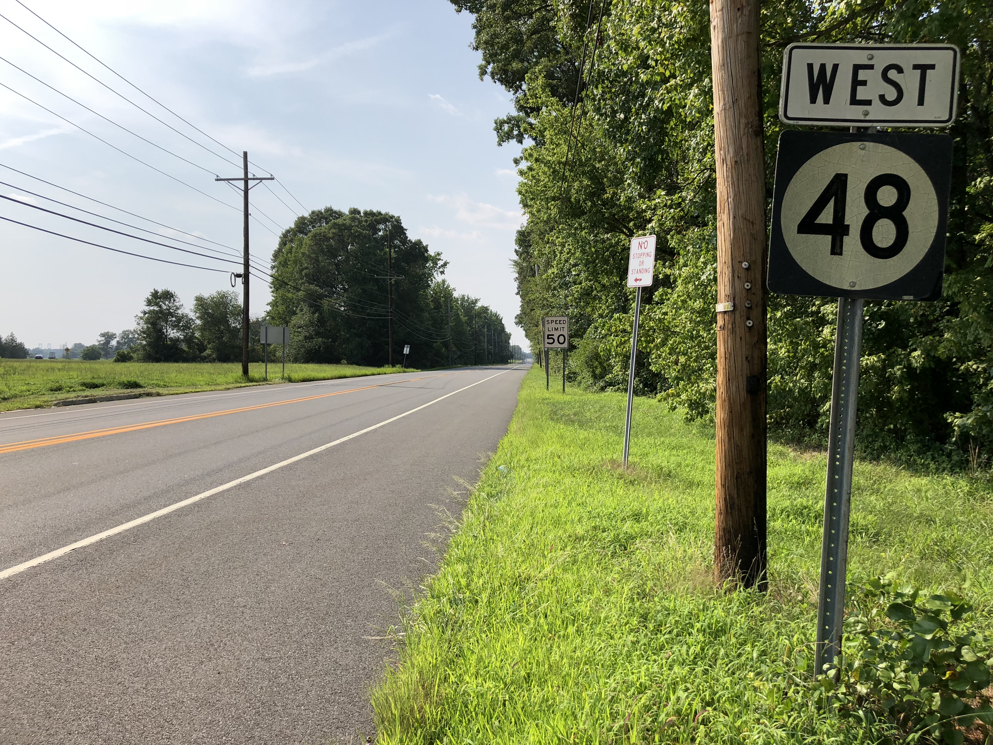 View west along New Jersey State Route 48 (Harding Highway) at U.S. Route 40 (Wiley Road) in Carneys Point Township, Salem County, New Jersey